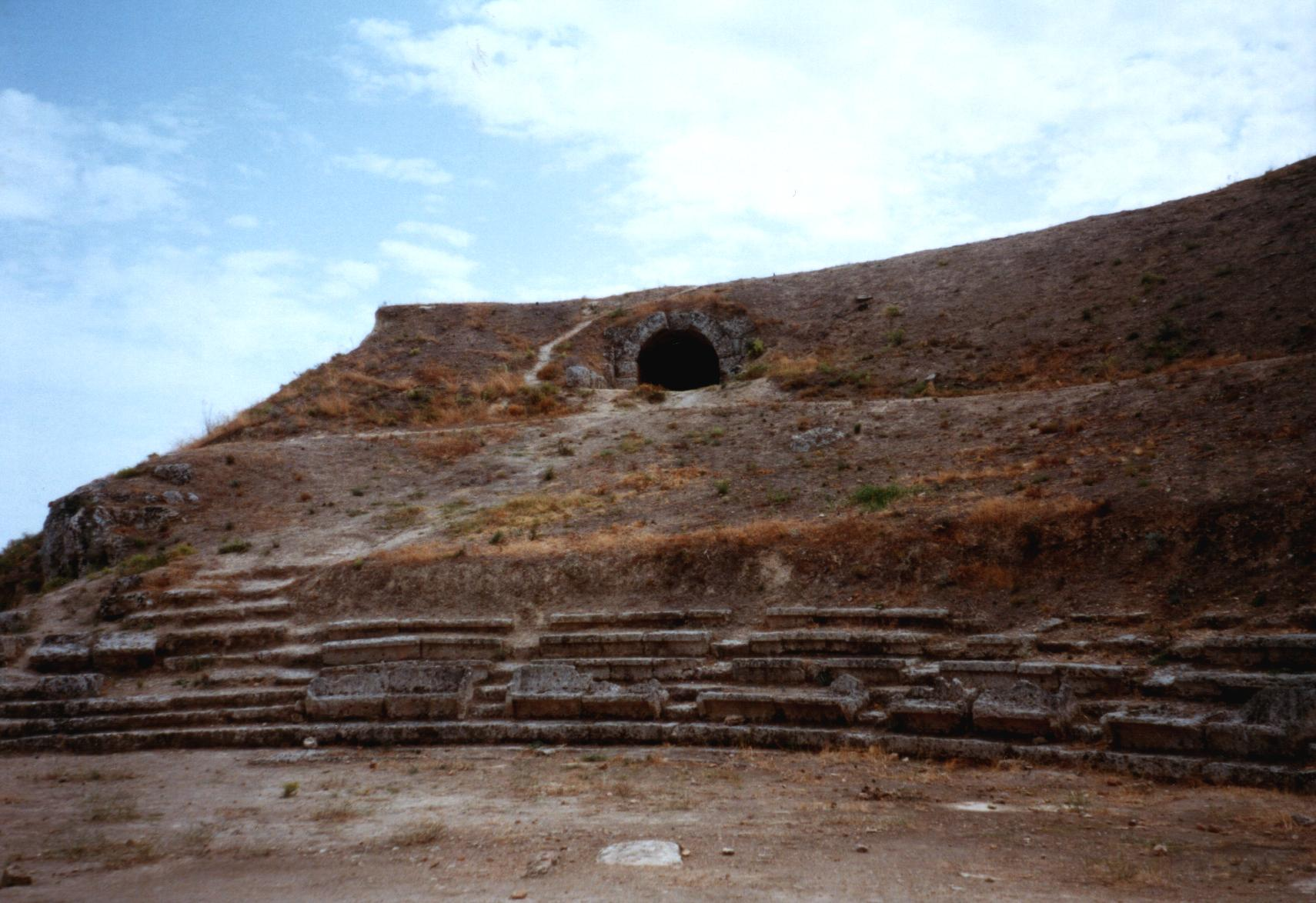 Theater of Sicyon